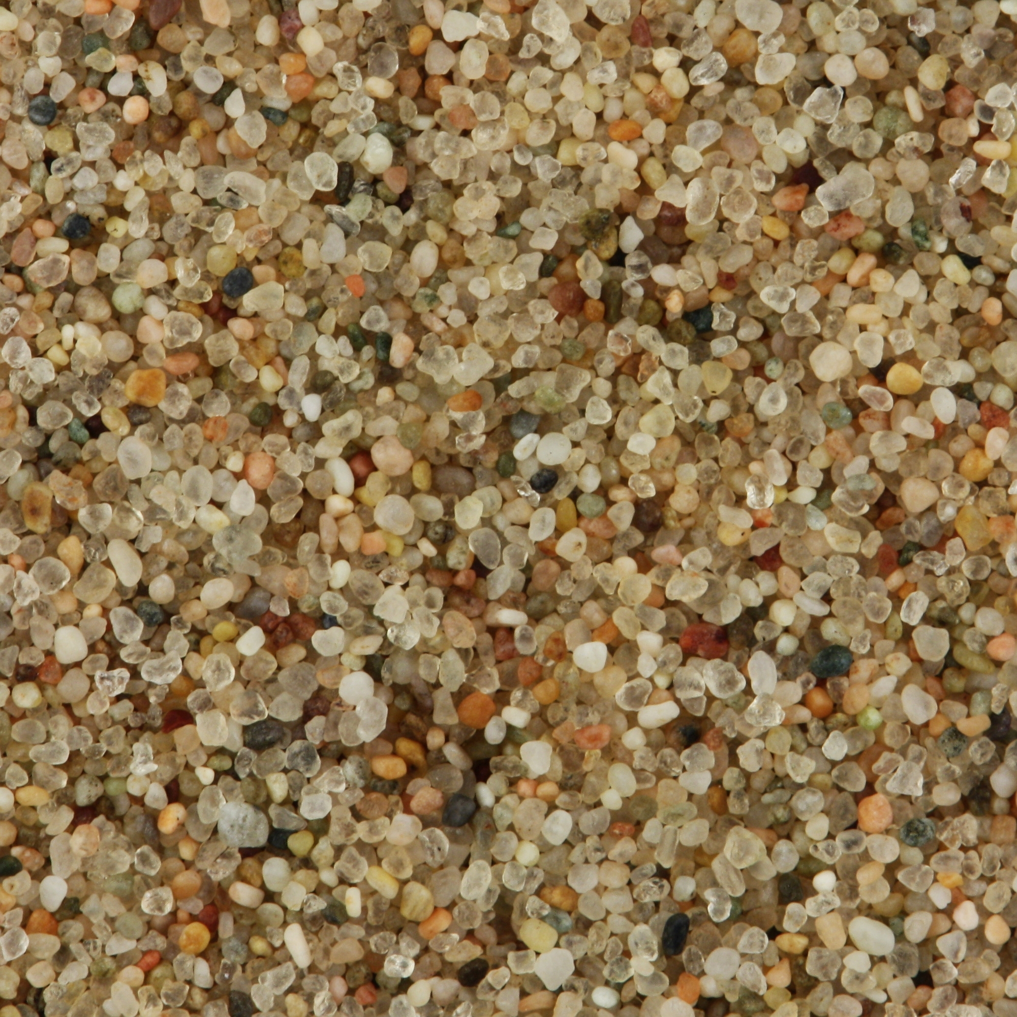 Rounded and fine-grained eolian sand sample from the Gobi Desert (near Dalanzadgad in Mongolia). The width of the view is 10 mm.